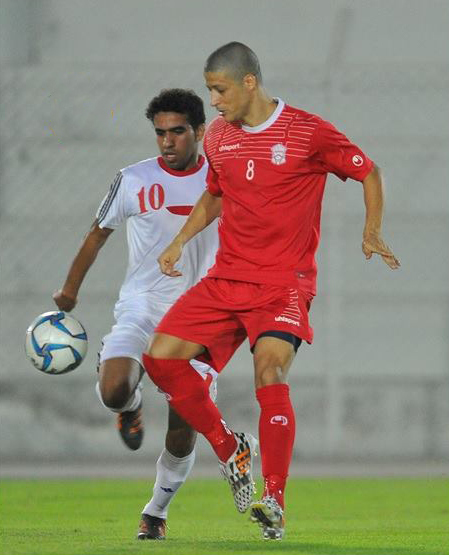 Rafael da Silva Nascimento in action for Muscat Club against Al Mudhaibi Club 16 January 2015 Al Mudhaibi Club ground. Photographer email id